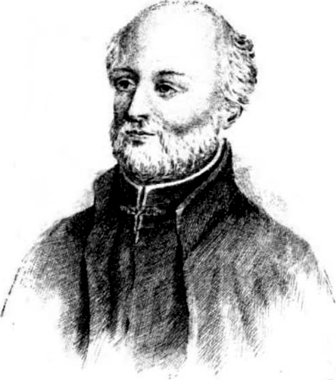 Pierre François Xavier de Charlevoix (1682-1761), French Jesuit traveller and historian.